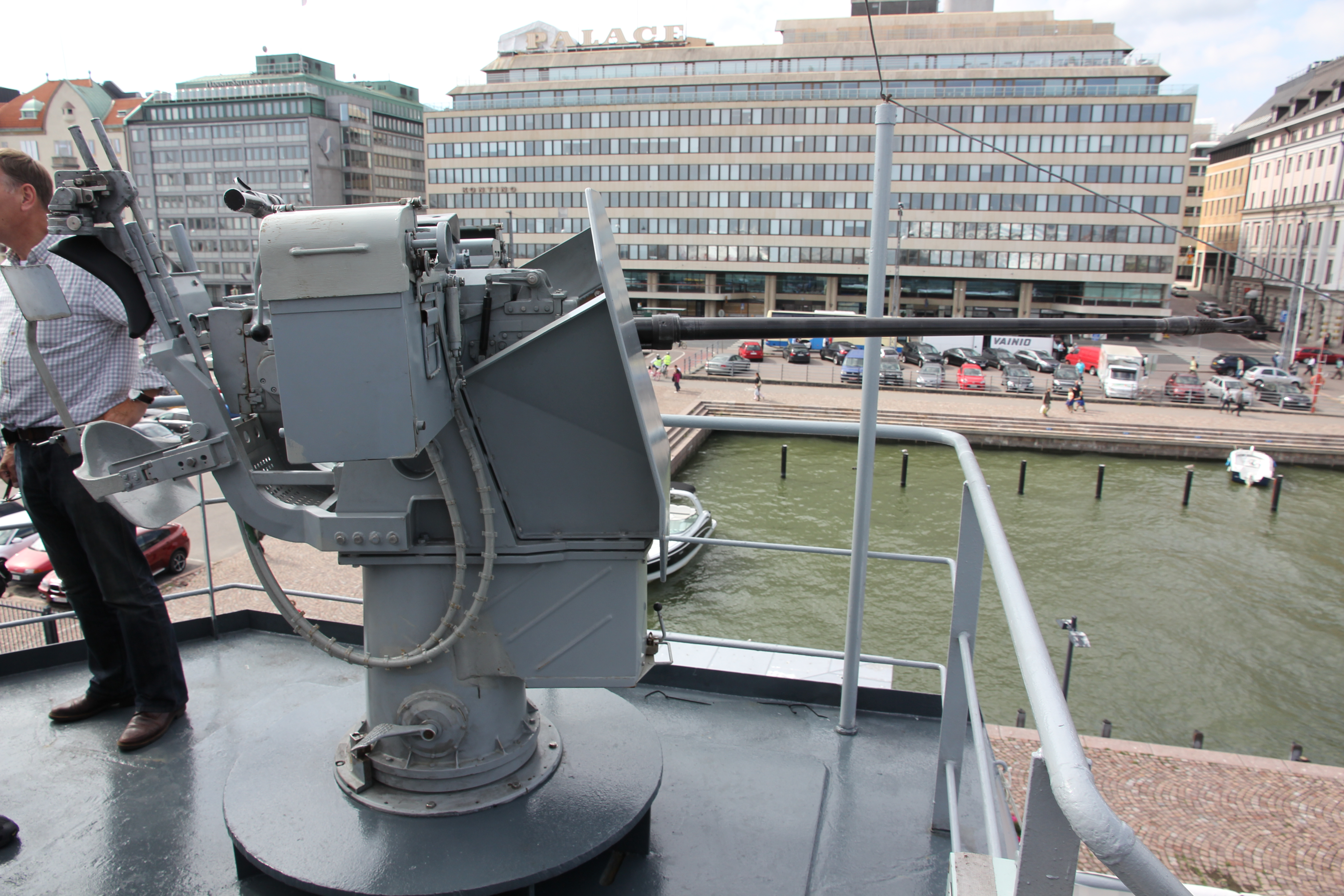 Port side 20 mm Rheinmetall Rh 202 gun of Irish offshore patrol ship LÉ Róisín (P51) photographed in Helsinki.